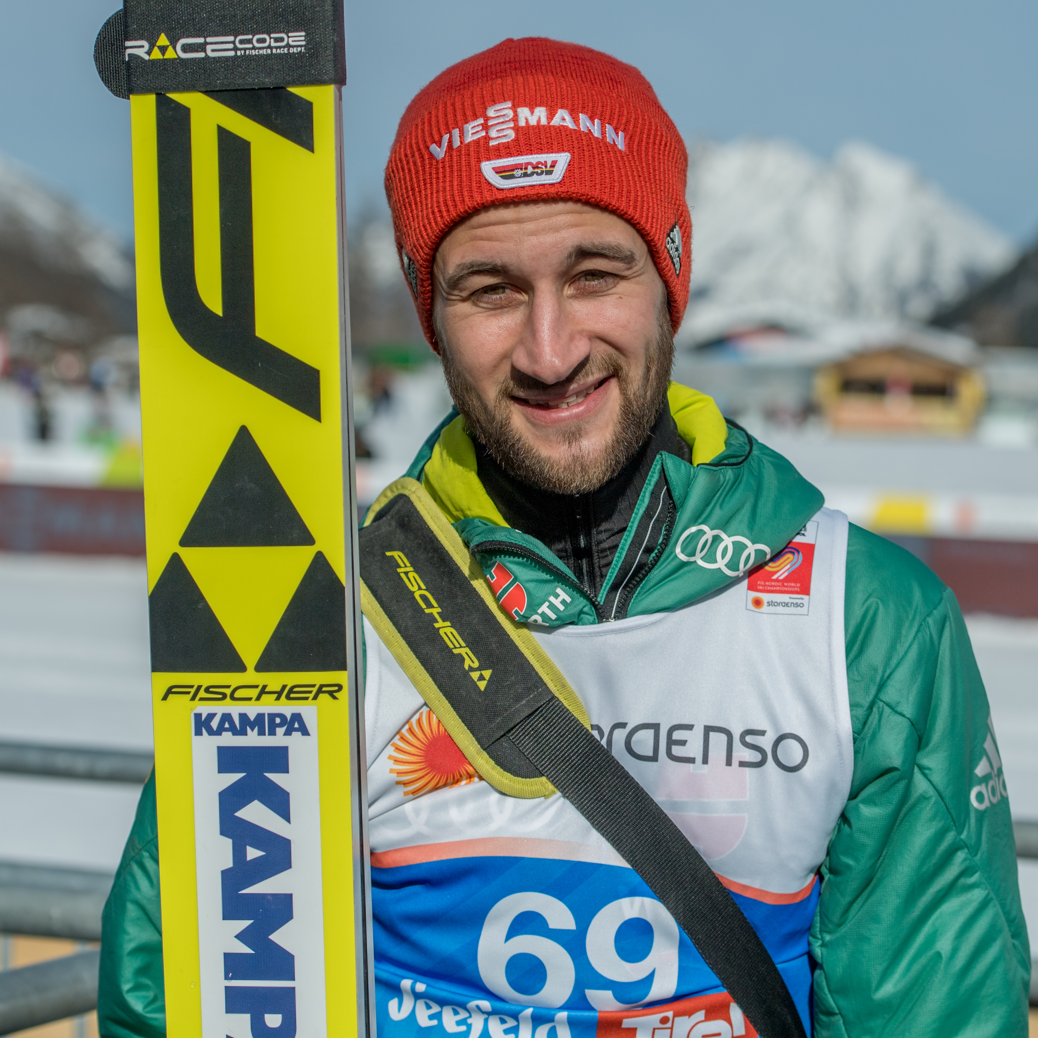 Seefeld, February 26, 2019: FIS Nordic World Ski Championships, Ski Jumping Training Men.